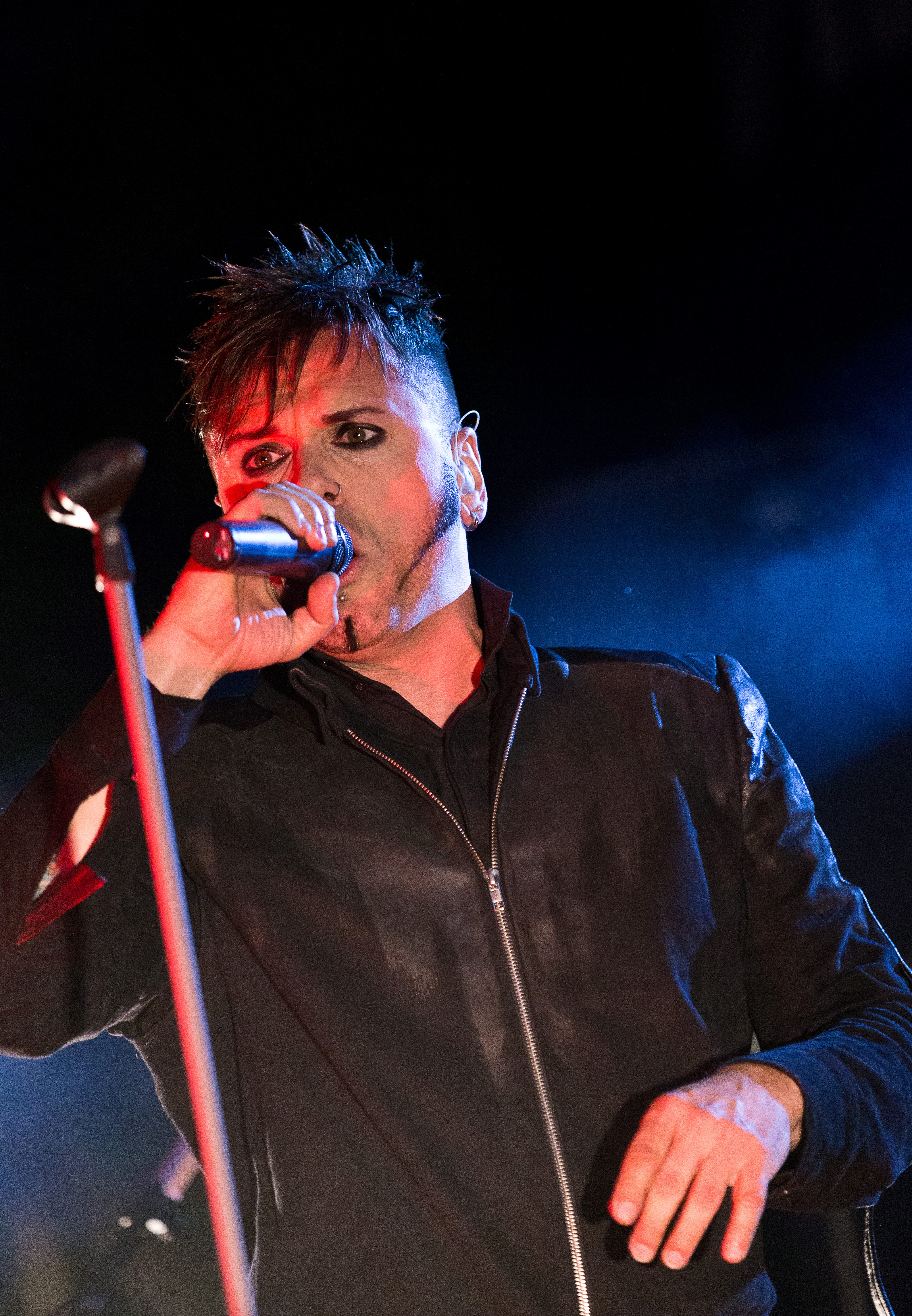 The German rock band Oomph! at the Nocturnal Culture Night 10 2015 in Deutzen/Germany.